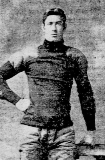 American football player Dave Campbell (1873–1949), photographed as captain of the 1901 Harvard squad